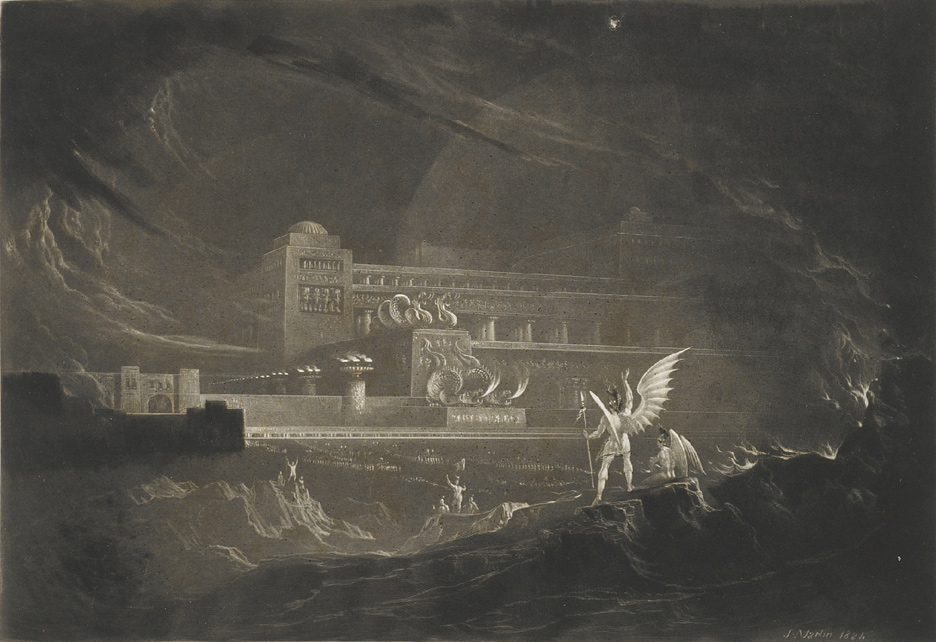 Pandemonium - One out of a set of mezzotints with the same title